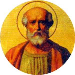 Portait of Pope Innocent I in the Basilica of Saint Paul Outside the Walls, Rome